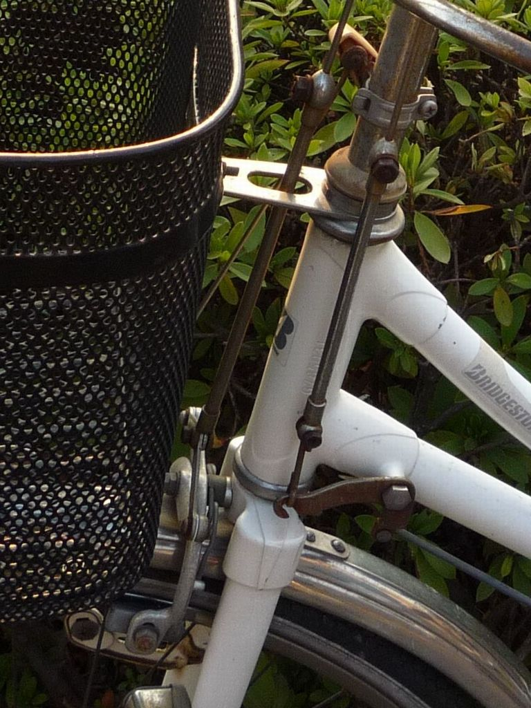 CenterPullCaliperBrake SinglePivot RodOperation